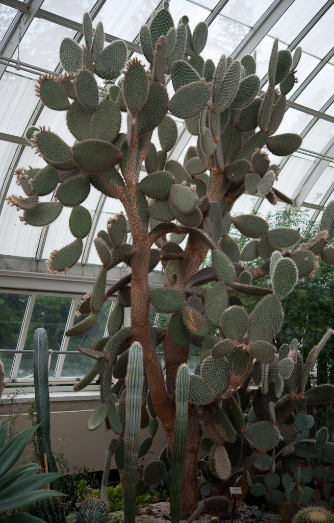 Opuntia pilifera (Cocoche loco). Origin: southern Mexico.